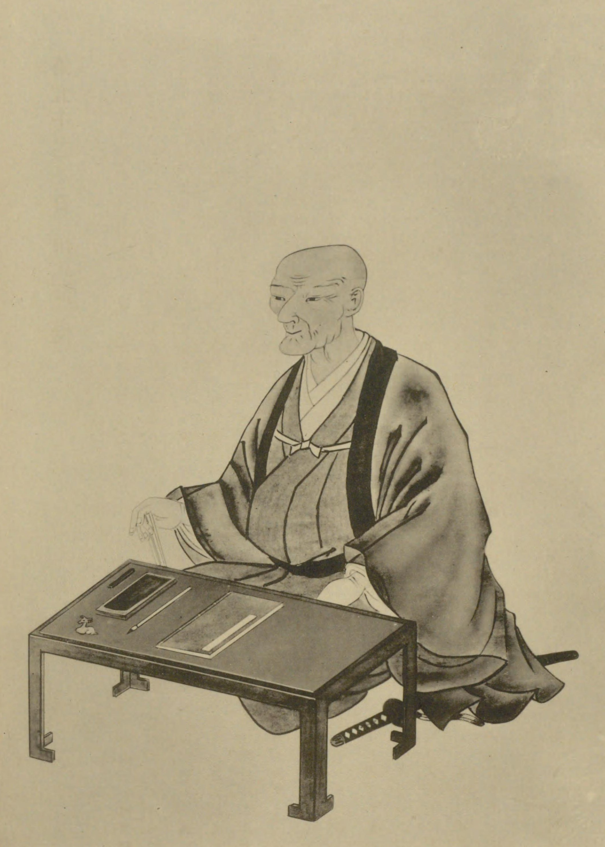 Portrait of Kagawa Gen'etsu